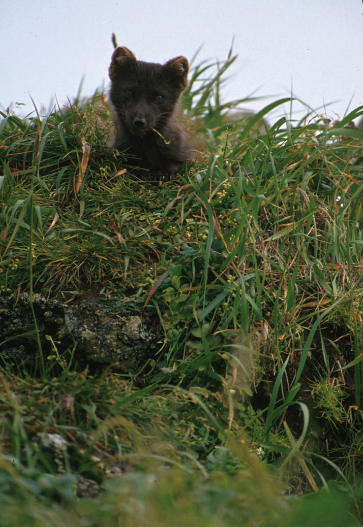 Arctic fox (Alopex lagopus) head shot in summer coloration in grass in Alaska Maritime National Wildlife Refuge in Alaska.